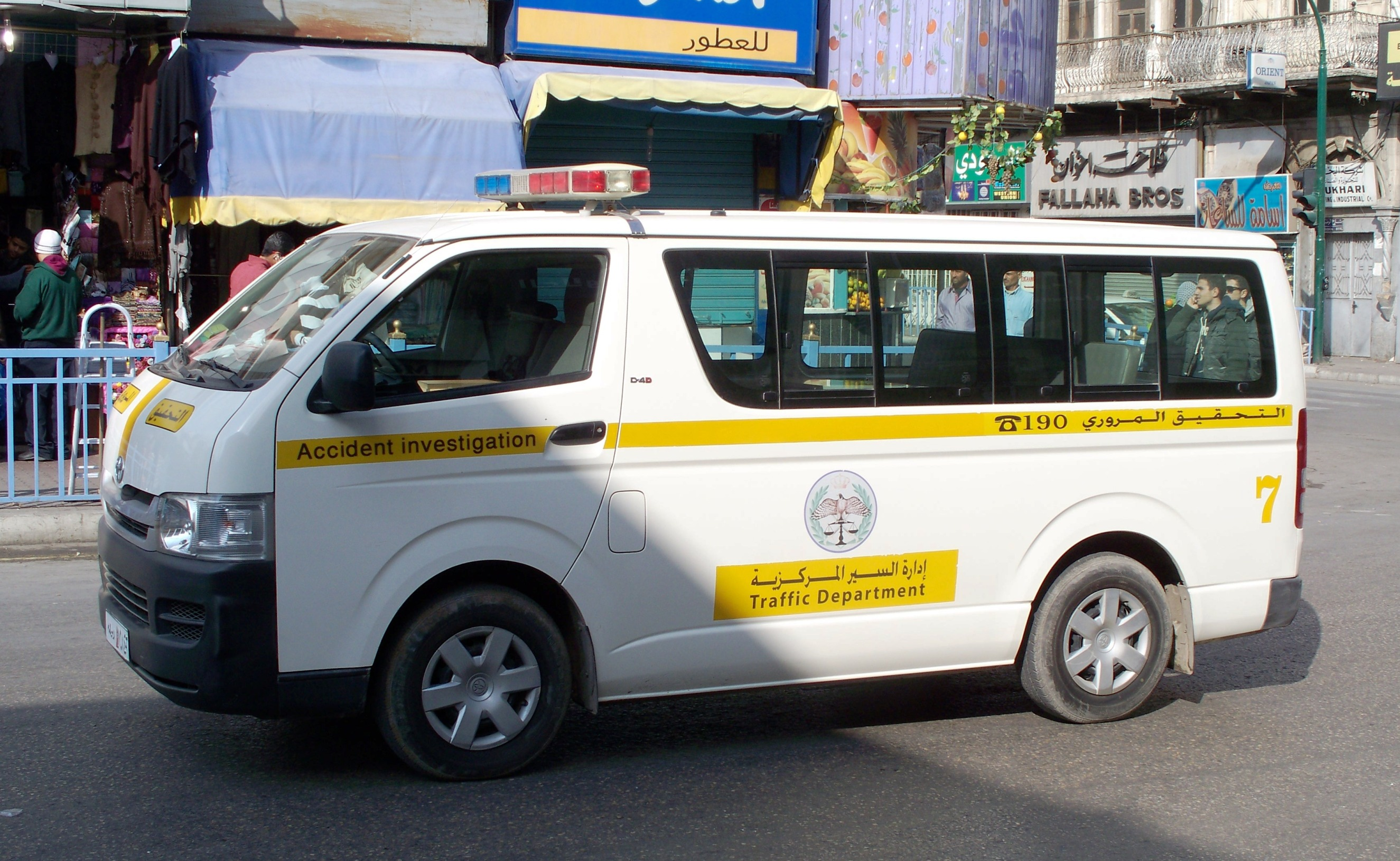 Vehicle of the Jordanian Traffic Department in Amman, Jordan.